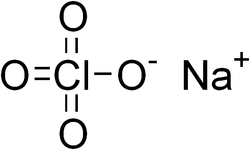 chemical structure of sodium perchlorate